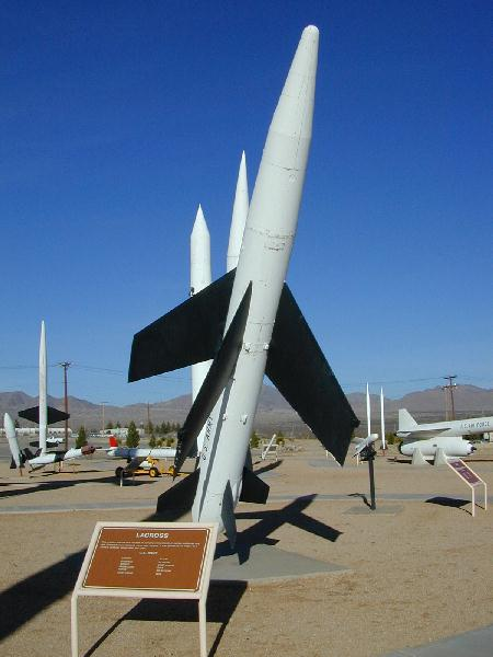 An artillery missile capable of carrying conventional or nuclear warheads.